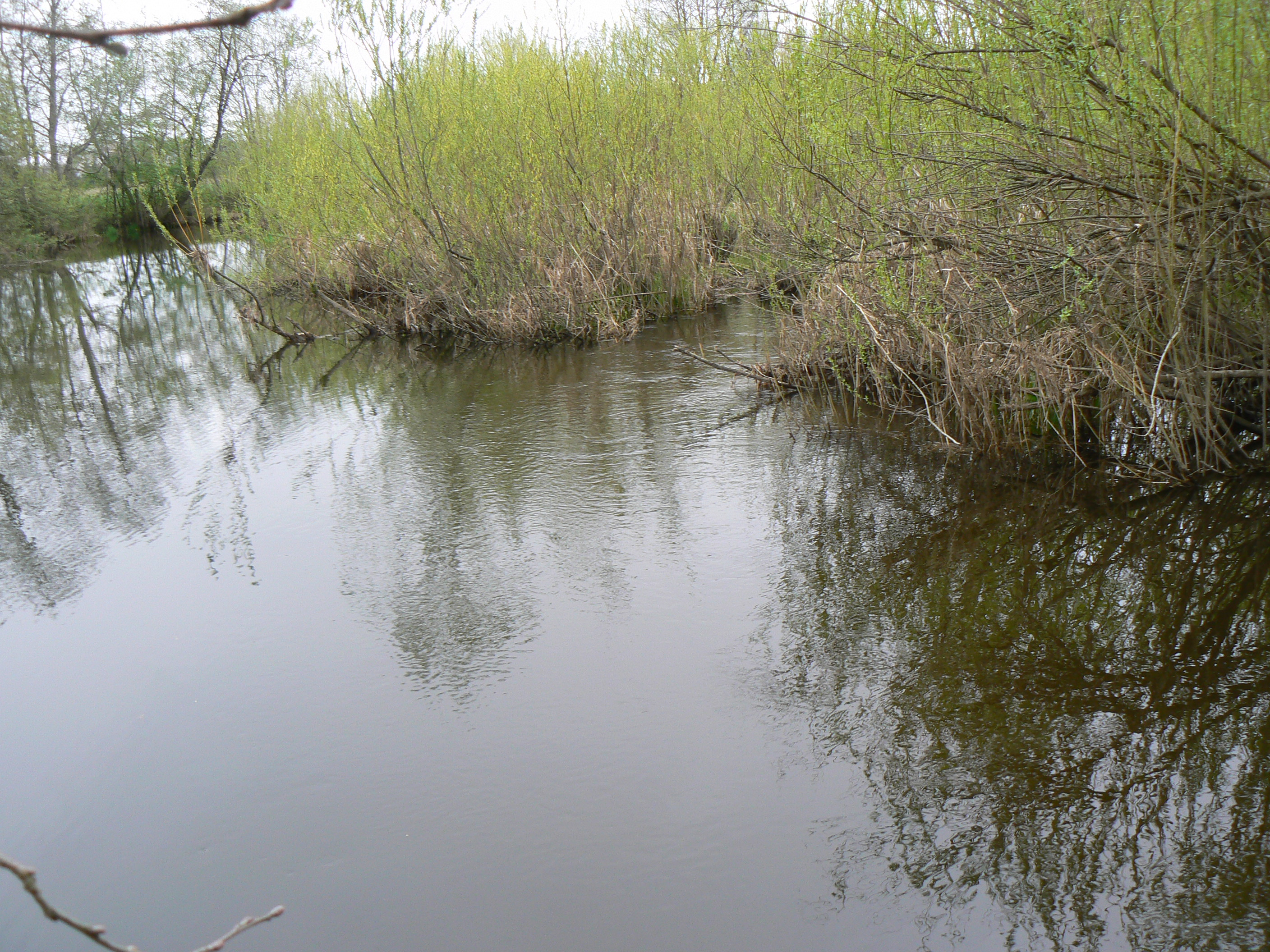 Confluence Lokysta/Ašutis Česky: Soutok Ašutisu (vpravo) s Lokystou (vlevo) ve městě Šilalė nedaleko před mostem ulice Kvėdarnos g.